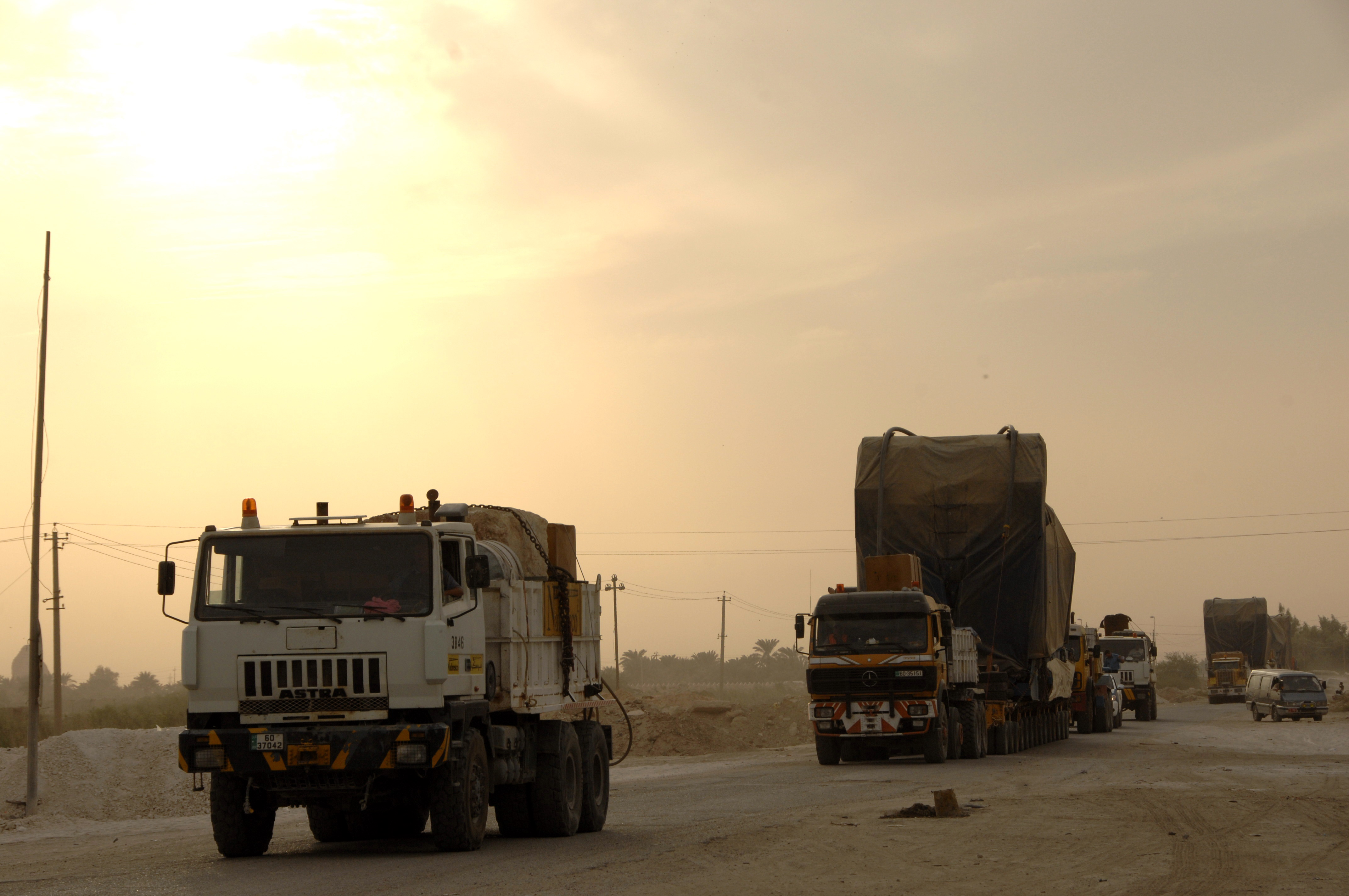 Vehicles carrying sections of a massive generator enter Baghdad, Iraq, Oct. 10, 2008. Coalition forces, Iraqi security forces and local contractors conducted a mission to transport several large generators to the area.